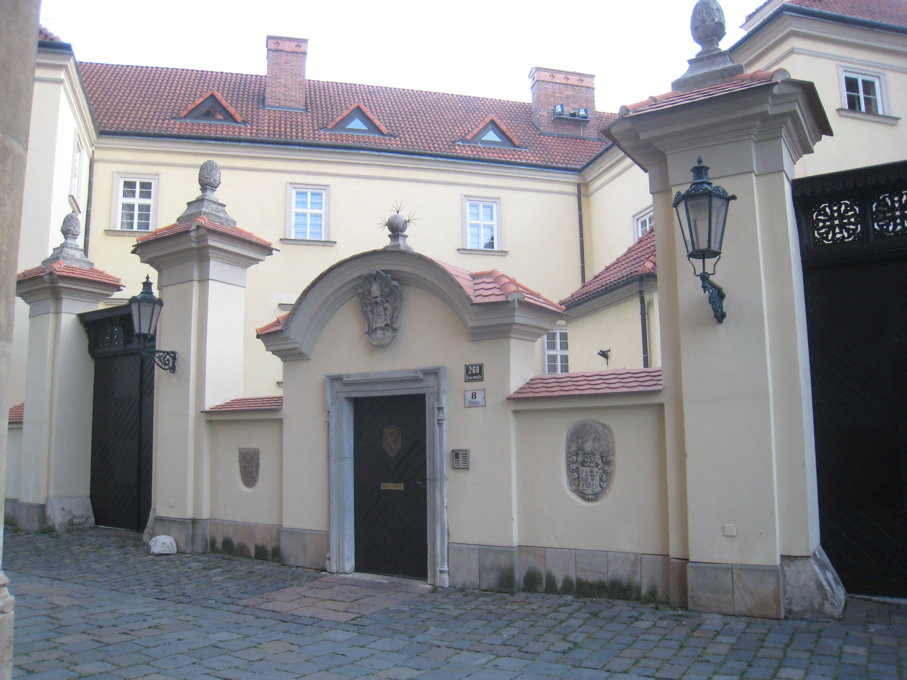 Bishop Palace in Brno.